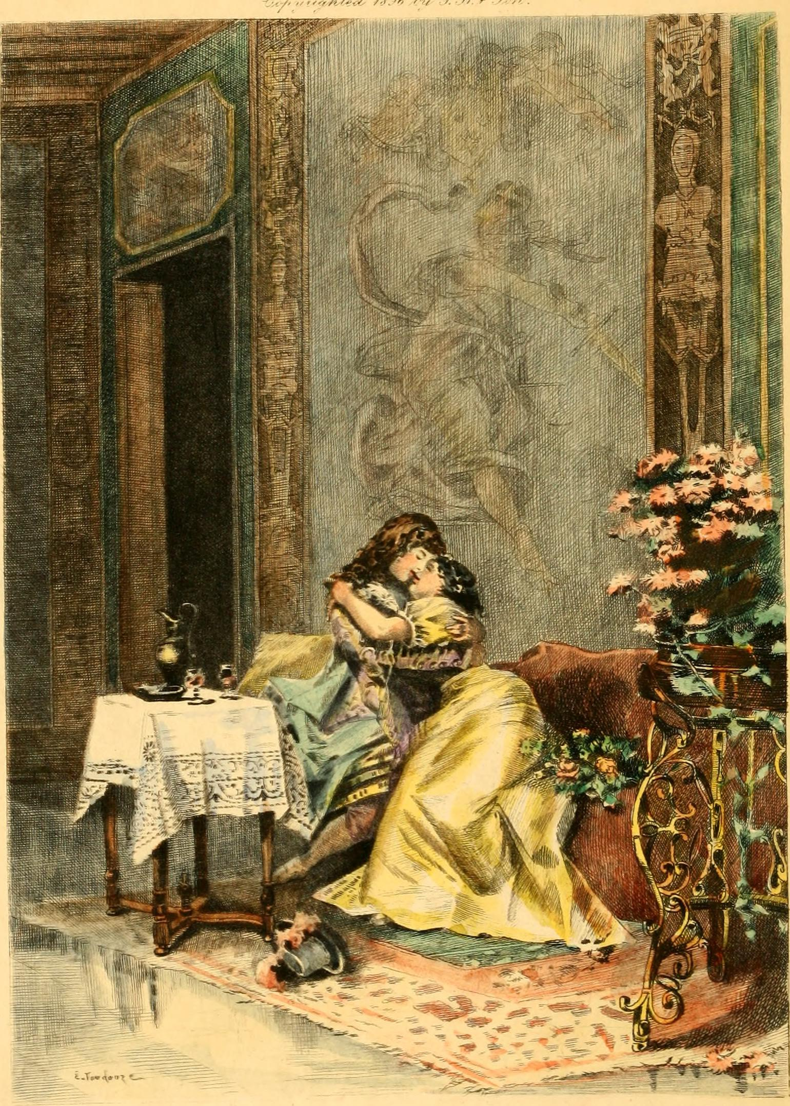 Title: Mademoiselle de Maupin, v. 2 Year: 1897 (1890s) Authors: Gautier, Theophile Subjects: Bibliotheque des chefs-d'oeuvre du roman contemporain: Realists (and) Romancists French fiction--19th century--Translations into English Limited Editions French fiction Publisher: Philadelpha: Printed for subscribers only by G. Barrie Text Appearing Before Image: lways be, in my mind, the man who opened to mea world of novel sensations. Those are things a womandoesnt readily forget. Although absent, I shall thinkof you often, more often than if you were with me. Do your best to console poor Rosette, who is likelyto be at least as grieved as you at my departure. Loveeach other well in memory of me, whom you have bothloved, and mention my name sometimes in a kiss. NOTES 1 As You Like It. 2 The last word in this quotation, which justifies the succeedingepithets, is not in the English version of the play. i !! I ! Iilliiiil Text Appearing After Image: (S^apter XM Her supple, yielding body shaped itself to mine likewax and took its whole- exterior outline as exactly aspossible:—water would not have found its way morescrupulously into every irregularity in the line. — Thusglued to my side, she produced the effect of the doublestroke that painters give to the shadow side of theirpicture in laying on their color. BIBLIOTHEQUE DES CHEFS-DOEUVRE DU ROMAN CONTEMPORAIN MADEMOISELLE DE MAUPIN VOLUME TWO THEOPHILE GAUTIER PRINTED FOR SUBSCRIBERS ONLY BYGEORGE BARRIE & SONS, Philadelphia COPYRIGHTED, 1897, BY G. B. &. SON THIS EDITION OF MADEMOISELLE DE MAUPIN HAS BEEN COMPLETELY TRANSLATEDBY I. G. BURNHAM THE ETCHINGS ARE BY FRANCOIS-XAVIER LE SUEUR AND DRAWINGS BY EDOUARD TOUDOUZE MADEMOISELLE DE MAUPIN IX That is the fact.—I love a man, Silvio.—I tried fora long while to deceive myself; I gave a different nameto the sentiment I felt, I clothed it in the guise of pure,disinterested friendship; I believed that it was nothingmmademoiselledema10gaut